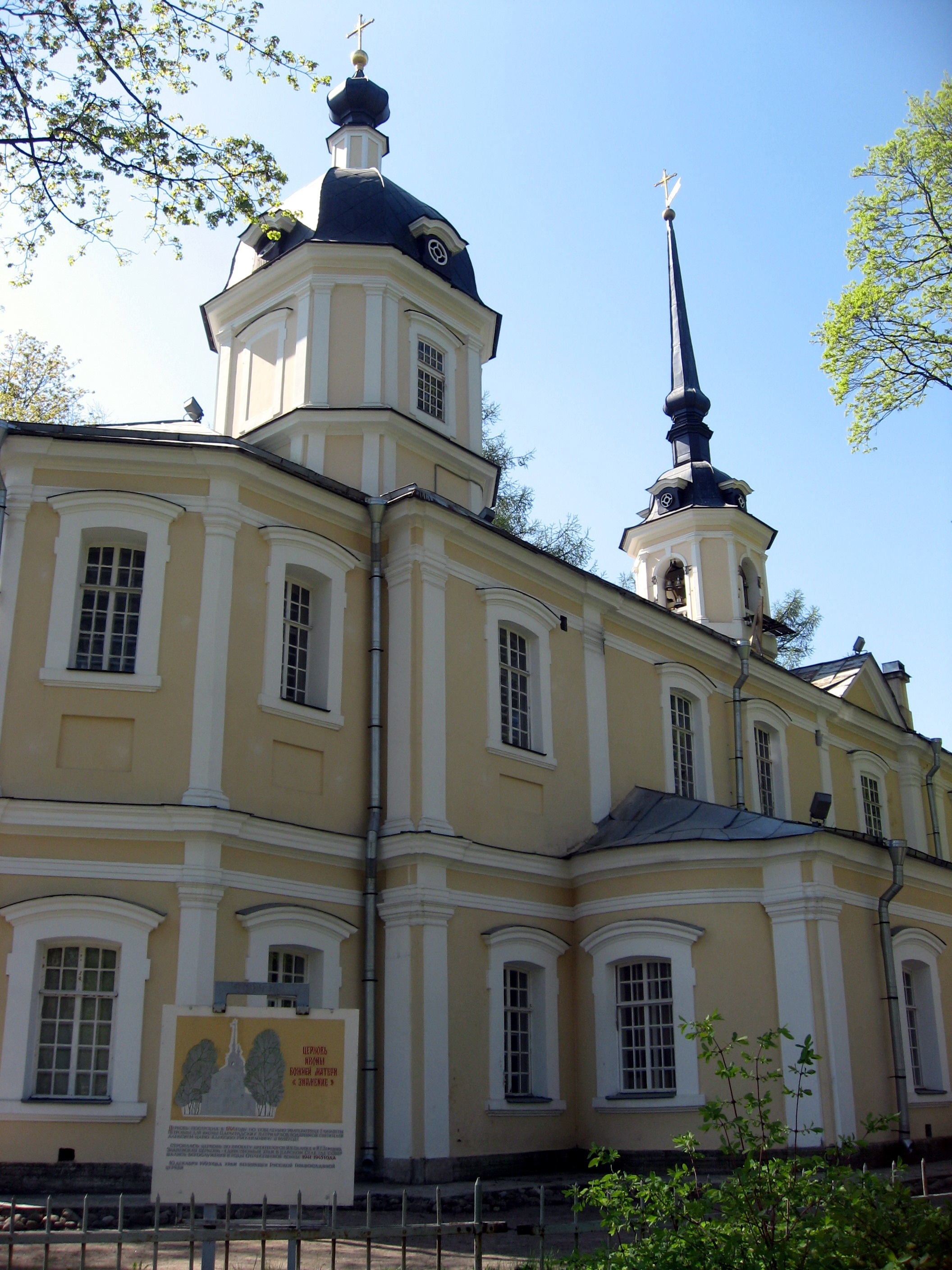 Tsarskoye Selo (Russia)